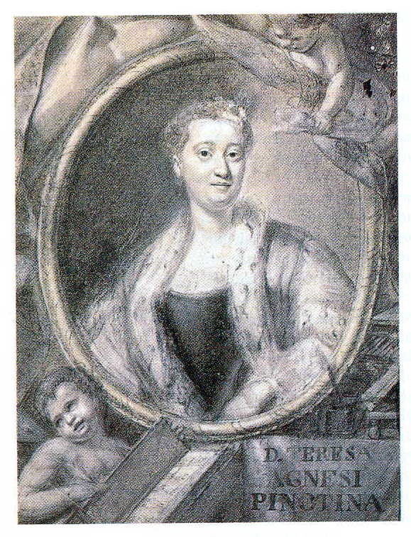 Maria Teresa Agnesi Pinottini (1720–1795), Italian composer